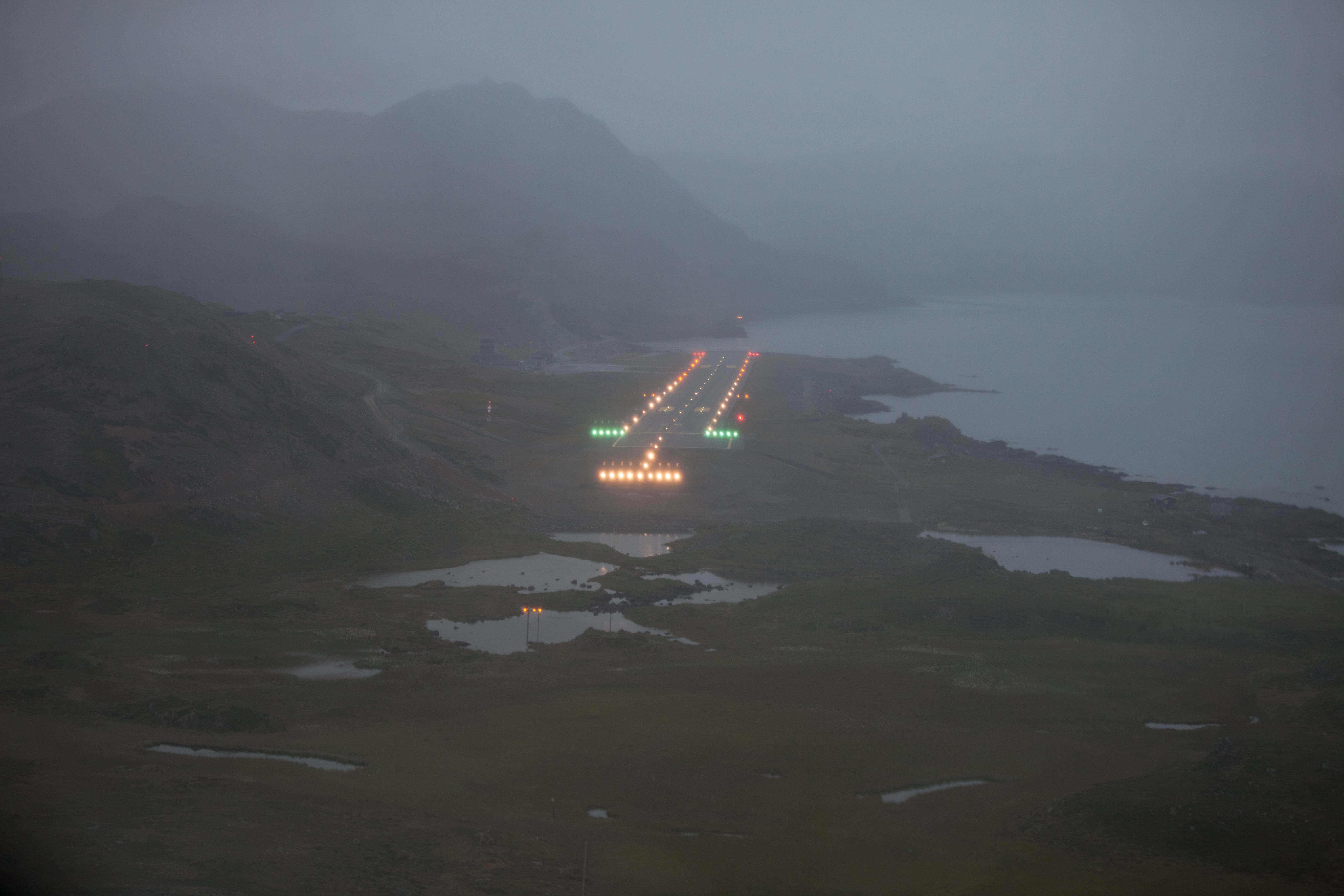 Destination Honningsvåg, most northern airfield, getting closer to sunset, but it never gets very dark here anyway. Photo looks like a video game or a science fiction movie.